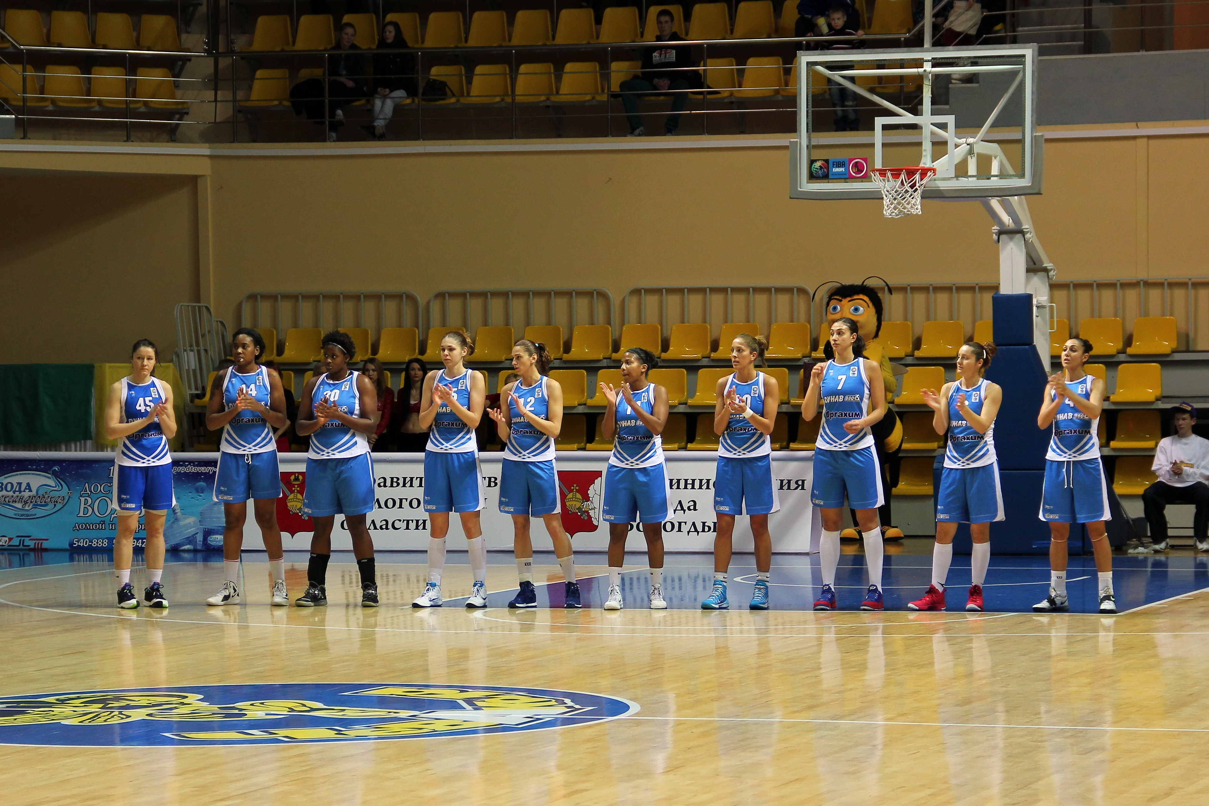 Women's basketball club «Dunav 8806» (Rousse)